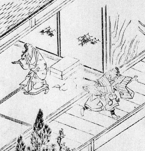 ghost from the Inuhariko (狗張子)